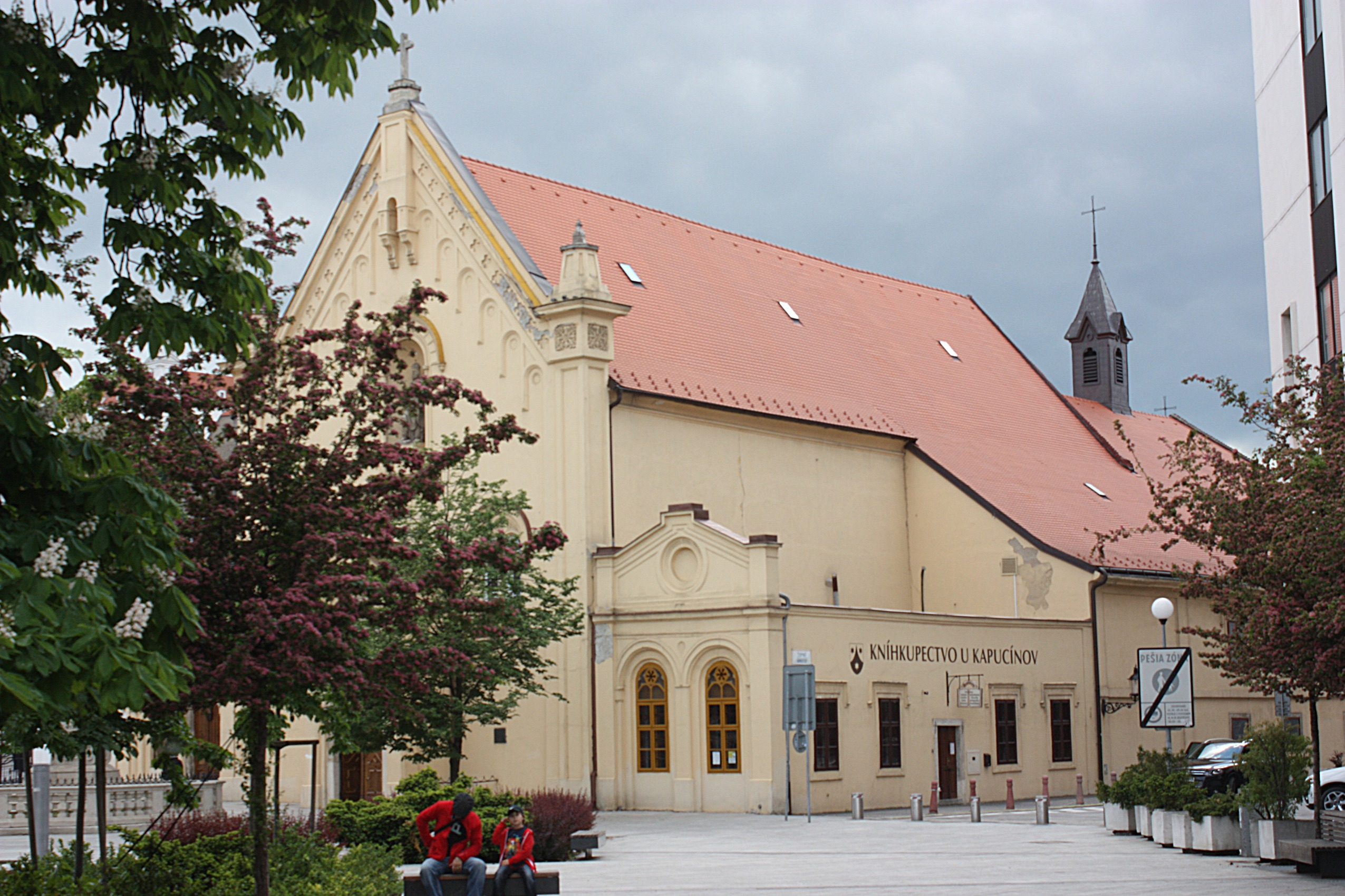 Bratislava, the Church of St Stephen the King